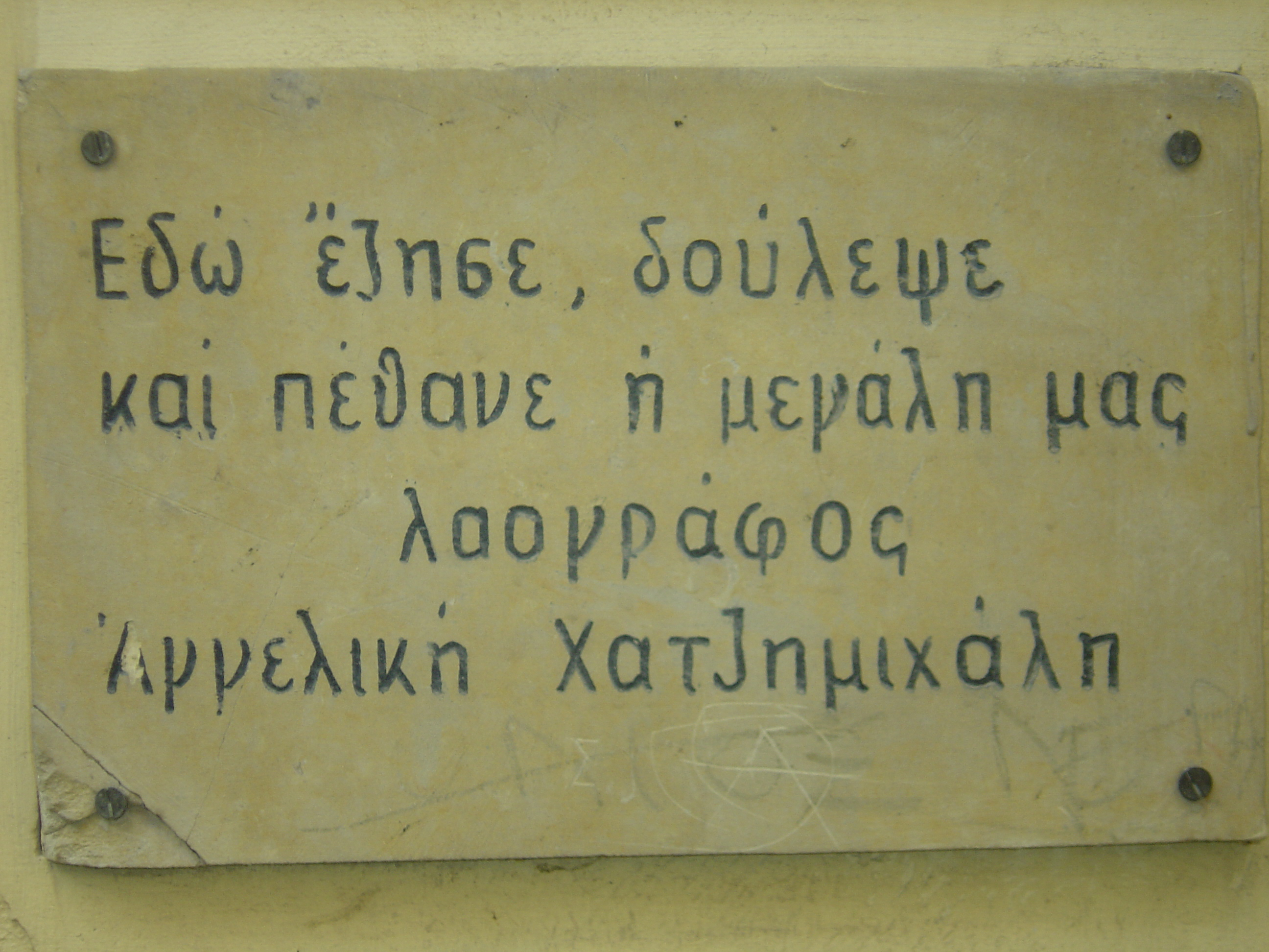 Memorial plaque outside Hatzimichali house in Plaka, Athens, Greece